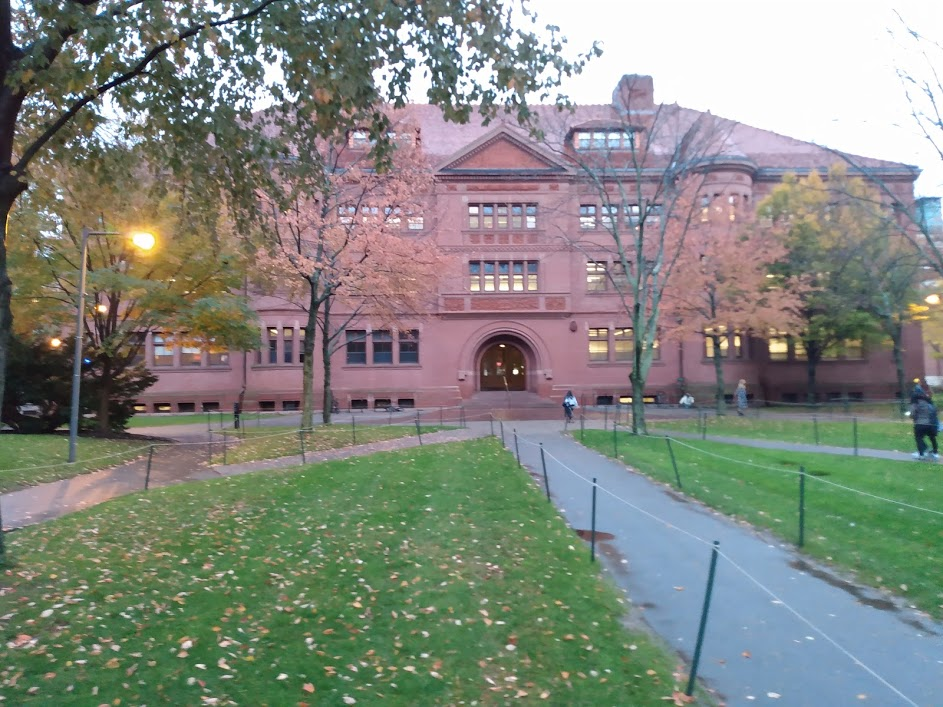 Harvard University,. November, 2019. Photography by David Adam Kess